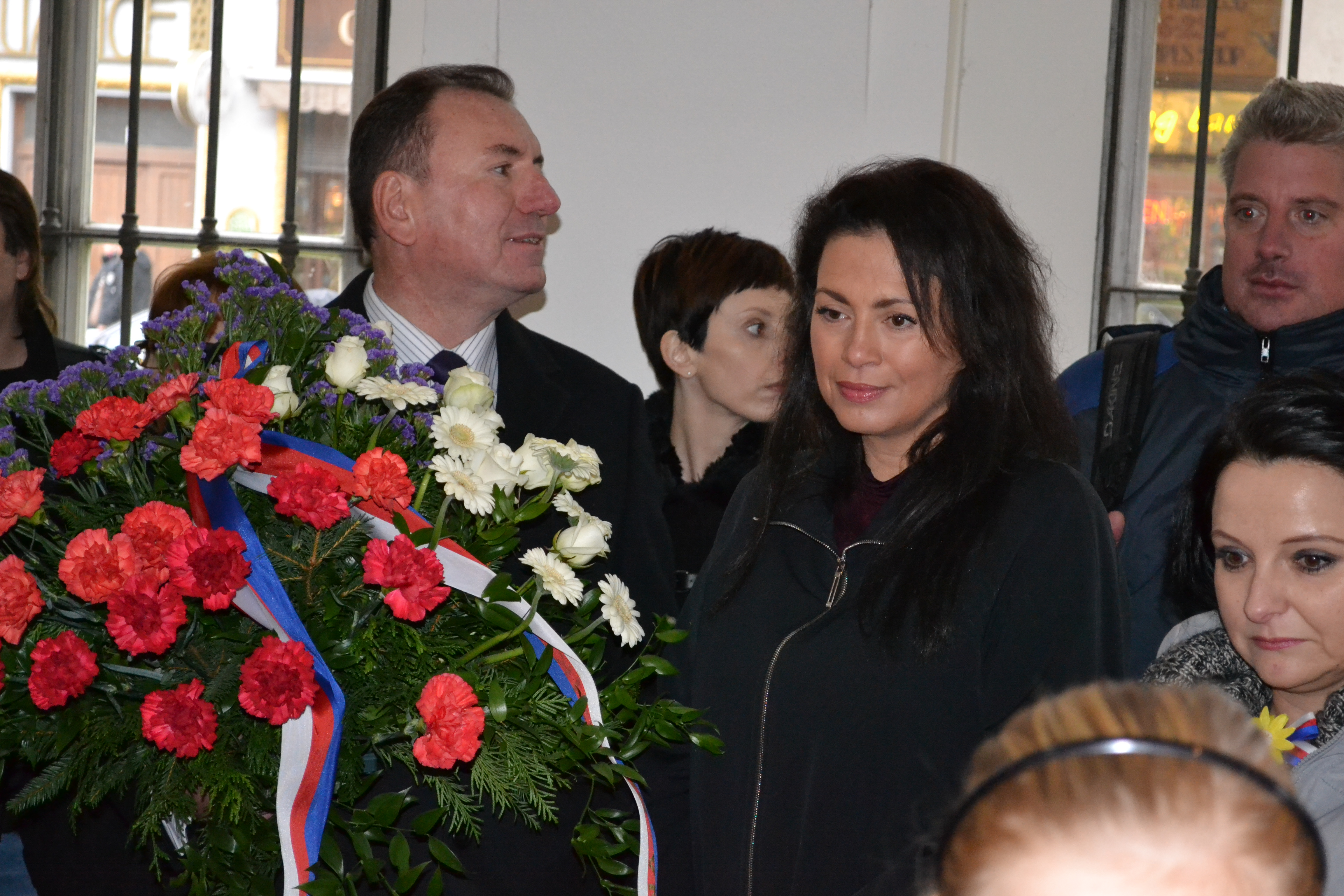 Jana Bobošíková, Czech politician, with her husband